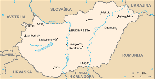 Map of Hungary in Slovene.